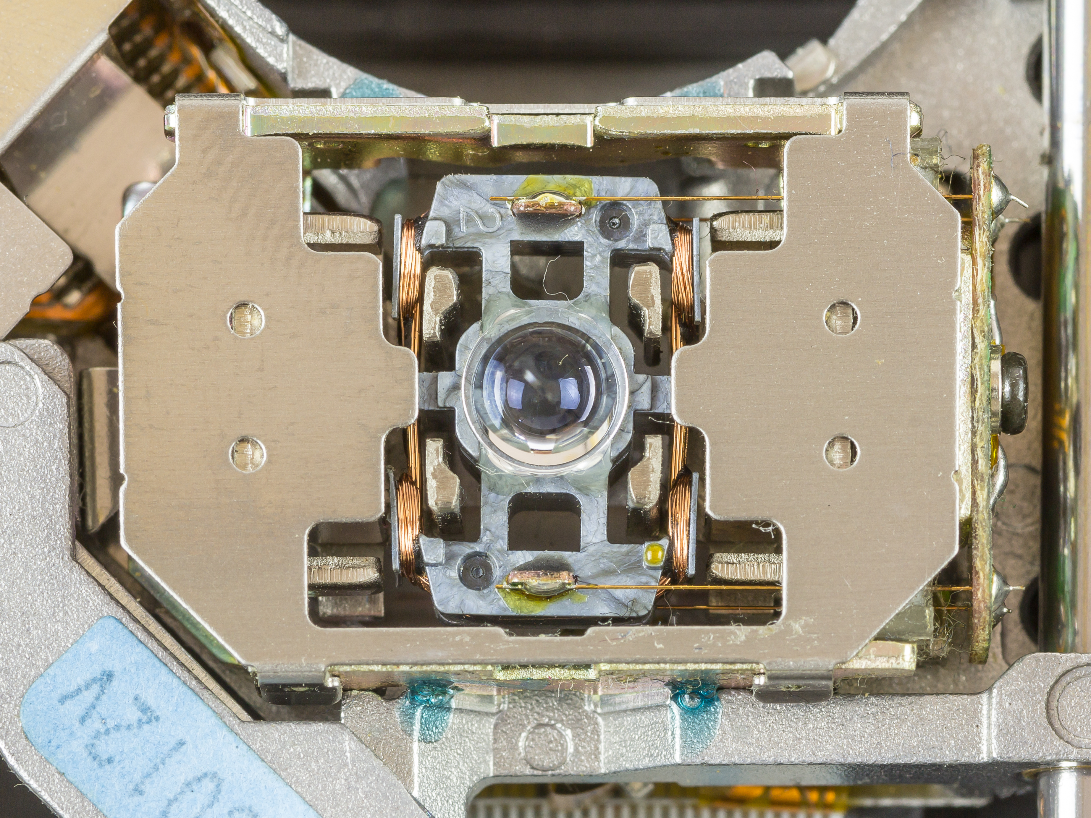 Plextor PX-W8432Ti - laser-lens-unit